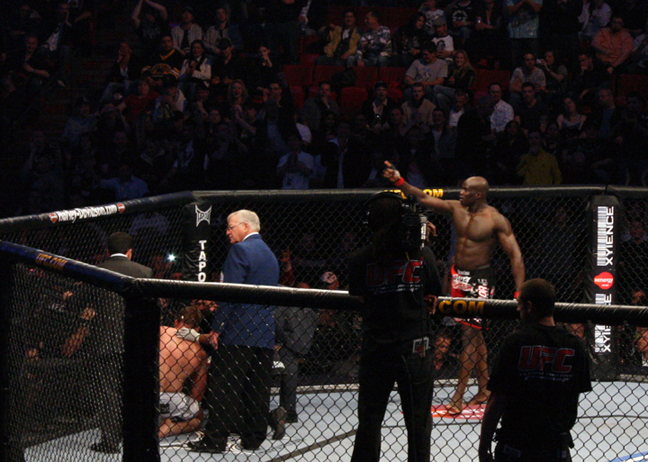 Cheick Kongo UFC 97 - Montreal Elite Sports Tours Bus Tour MLB NFL NBA NHL UFC BUS TOURS & TICKET PACKAGES